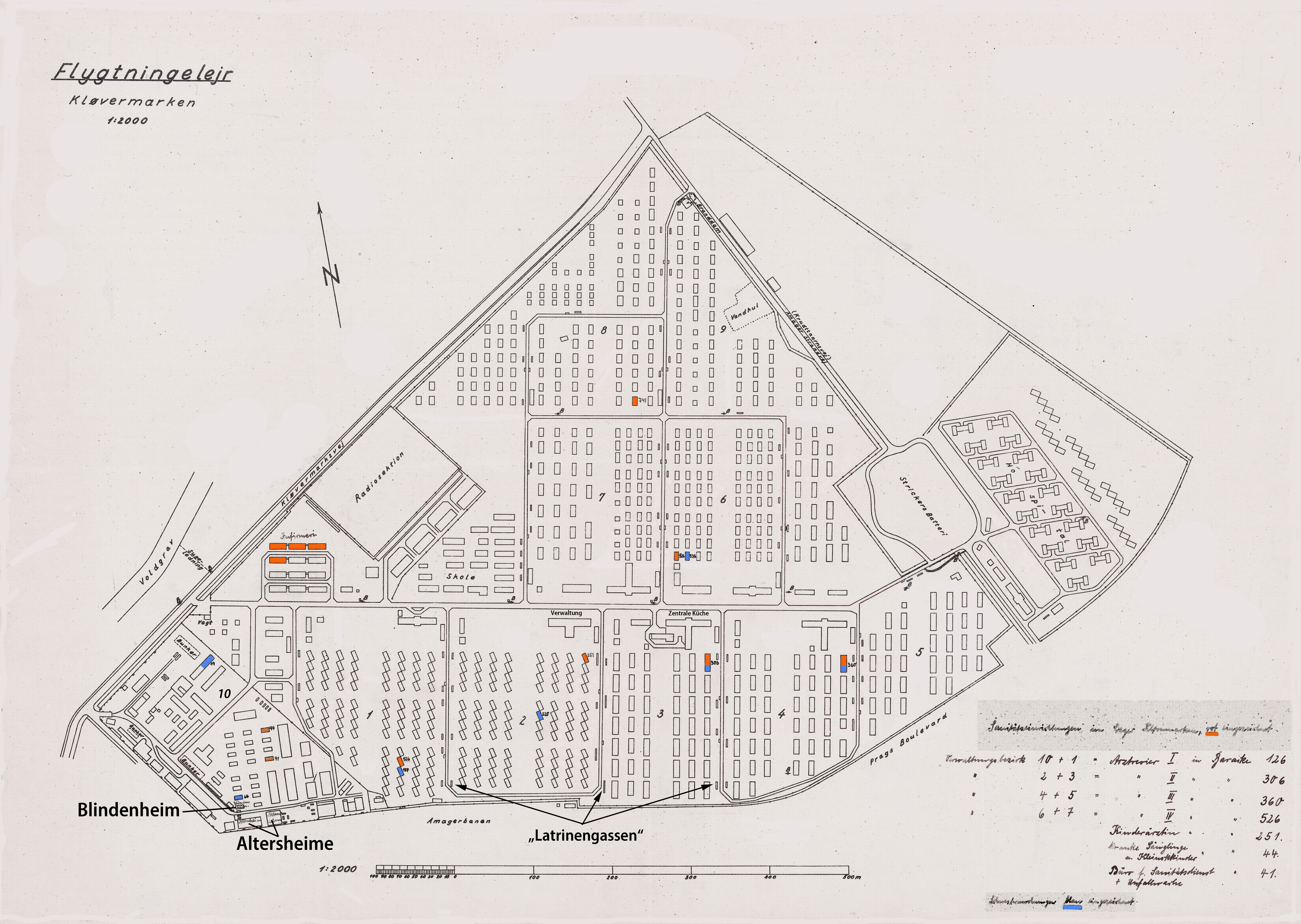 Sketch of the Healthsystem at the Refugees Camp at Kloevermarken 1945/1946, Danmark